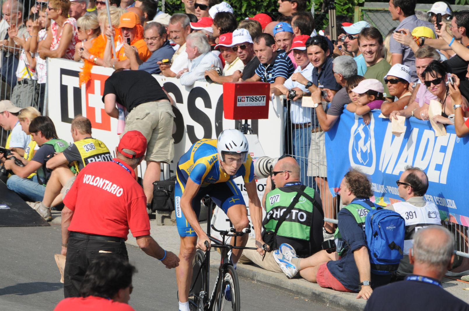 Gustav Erik Larsson at UCI World Championships in Mendrisio, Switzerland